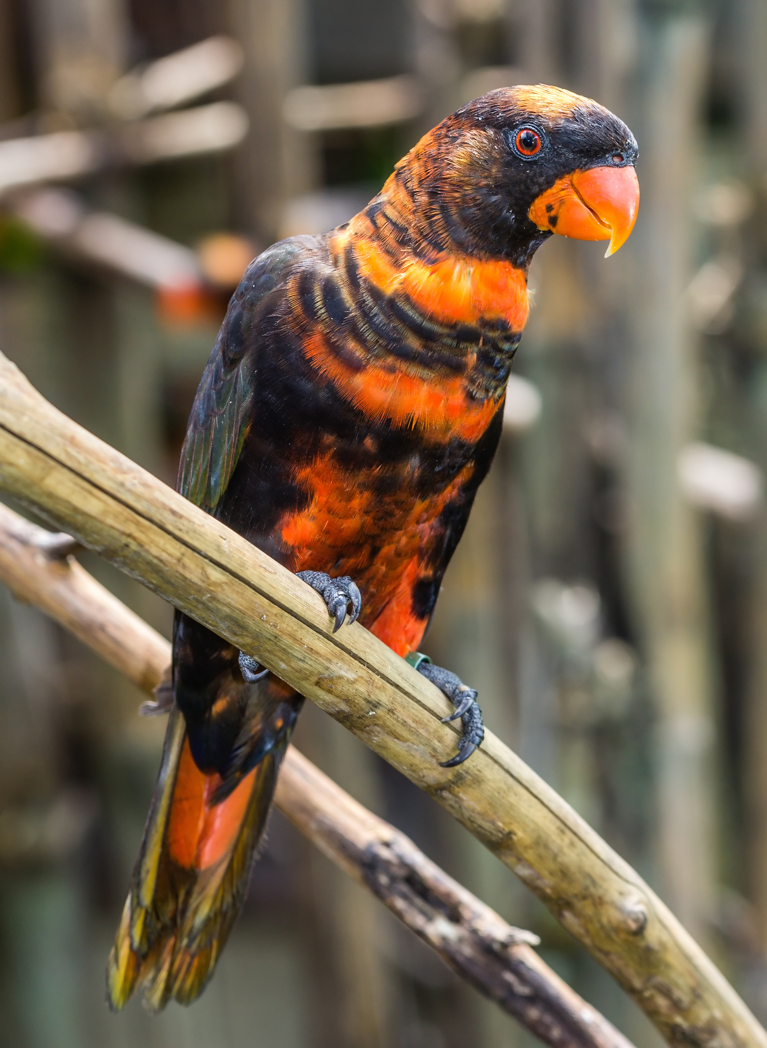 Dusky lory (Pseudeos fuscata), Gembira Loka Zoo, Yogyakarta, 2015-03-15